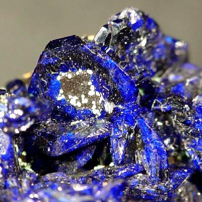 Azurite Locality: Chessy-les-Mines, Rhône, Rhône-Alpes, France (Locality at ) Size: miniature, 3.7 x 3 x 2.4 cm Azurite Lovely cluster of highly lustrous Azurite blades (up to .6 cm) that positively �glow� under good light. Hard to believe, but the color is even better in person � it has an incredible royal purple tint to the azure blue the equal of which I do not believe I have seen before. This is quite a beautiful specimen, with only one contacted area on the back edge that has no impact on the overall aesthetics. These are all OLD CLASSICS from the early to mid 1800s!